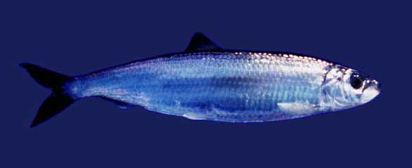 Clupea harengus Hering adult